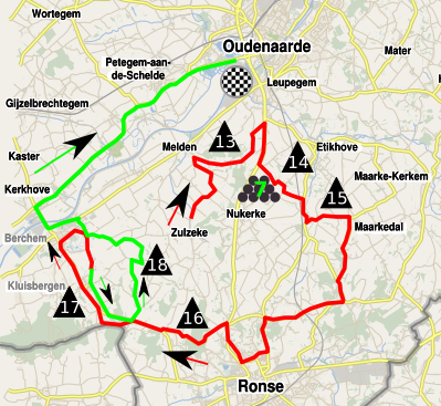 Map of the second lap from Ronde van Vlaanderen 2016 (final in green to avoid confusion)